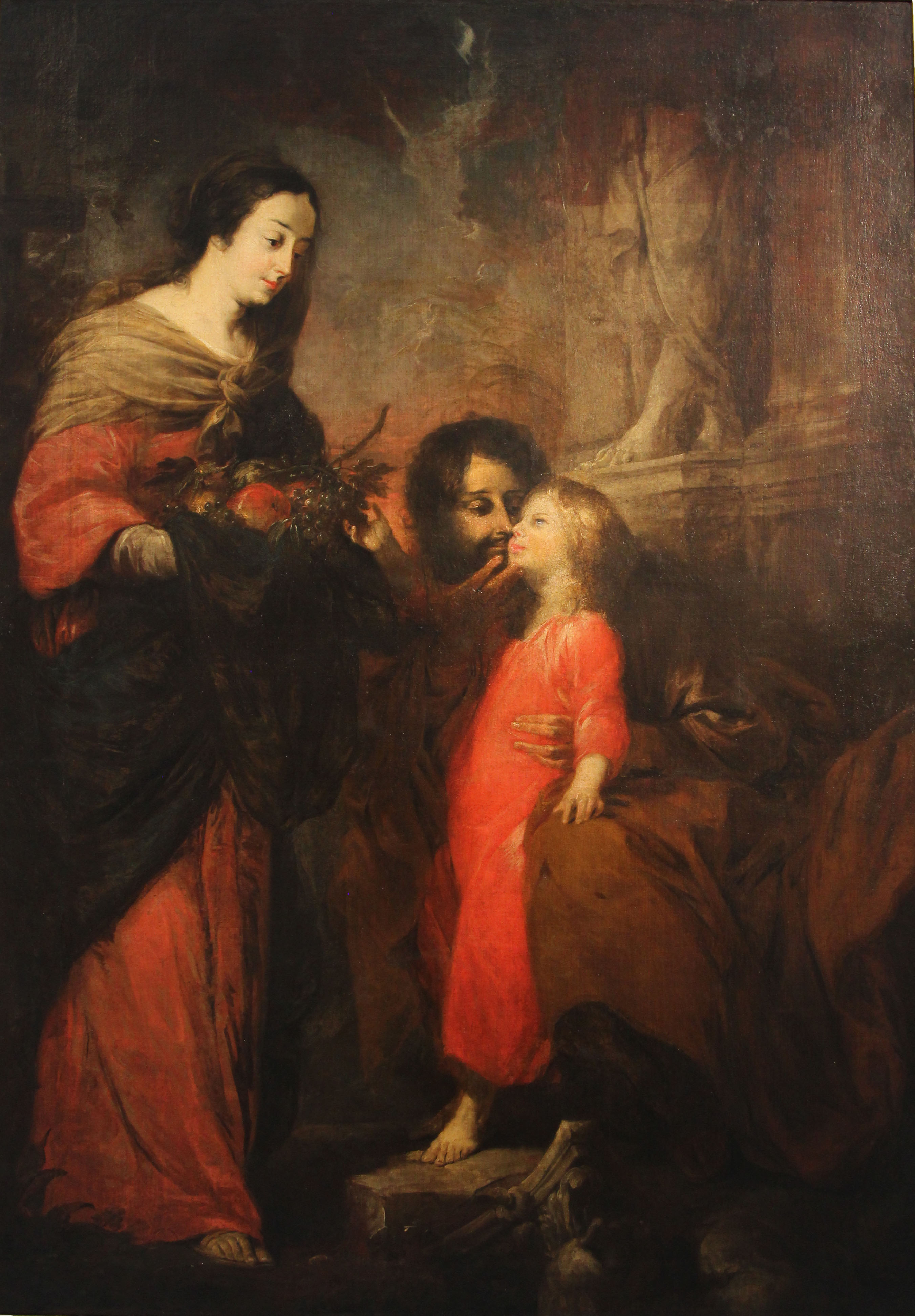 Michael Willman Kiss of Saint Joseph (circa 1675) from National Museum in Wroclaw (Until 1945 in the collection of the Maltzan family in Milicz)